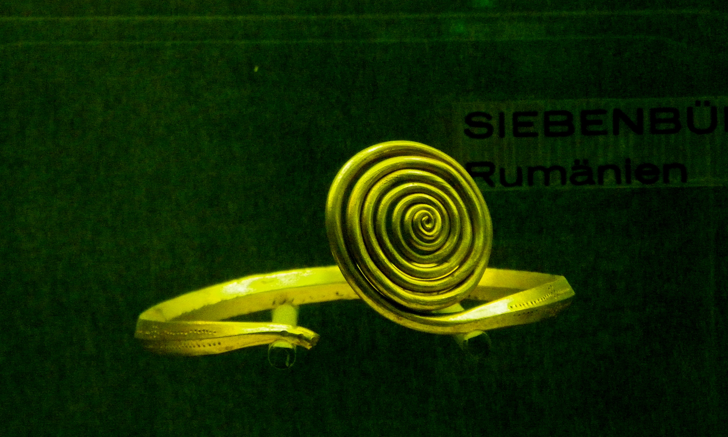 Naturhistorisches Museum Wien Dacian GoldRomână: Aur Dacic expus la Muzeul de Istorie Naturala din Viena